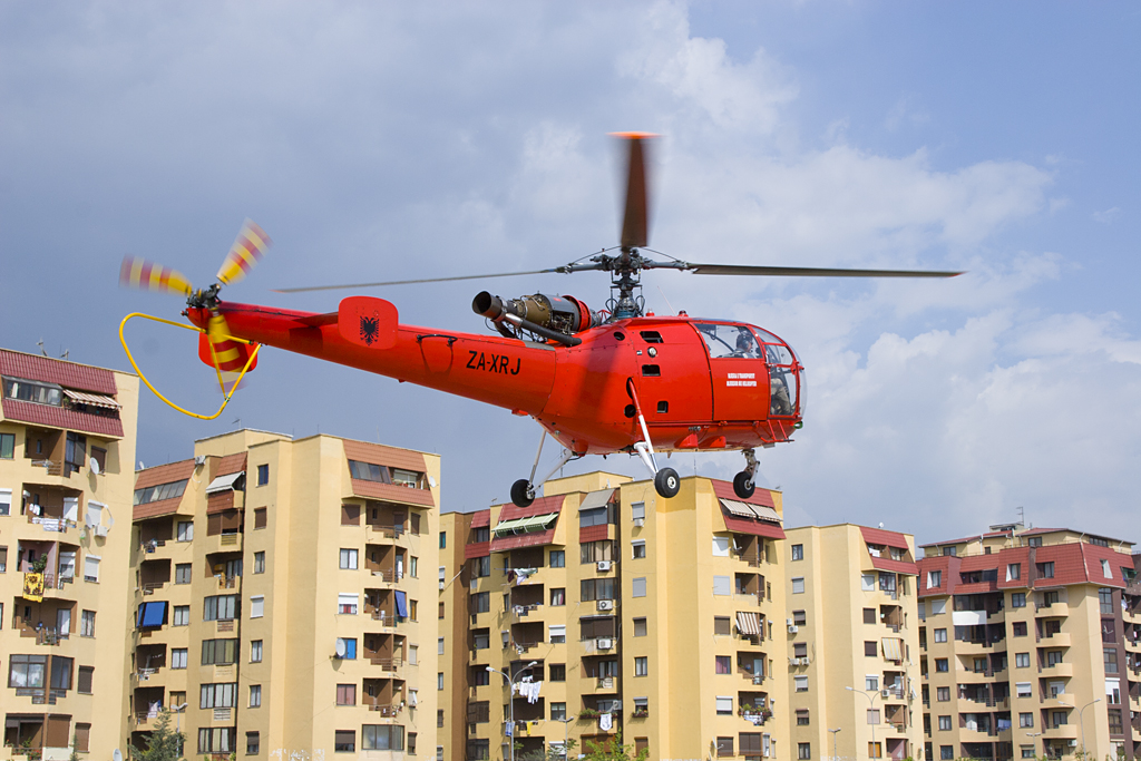 Alouette 3 of the Ministery of Interior landing at a helibase in the middle of Tirana.